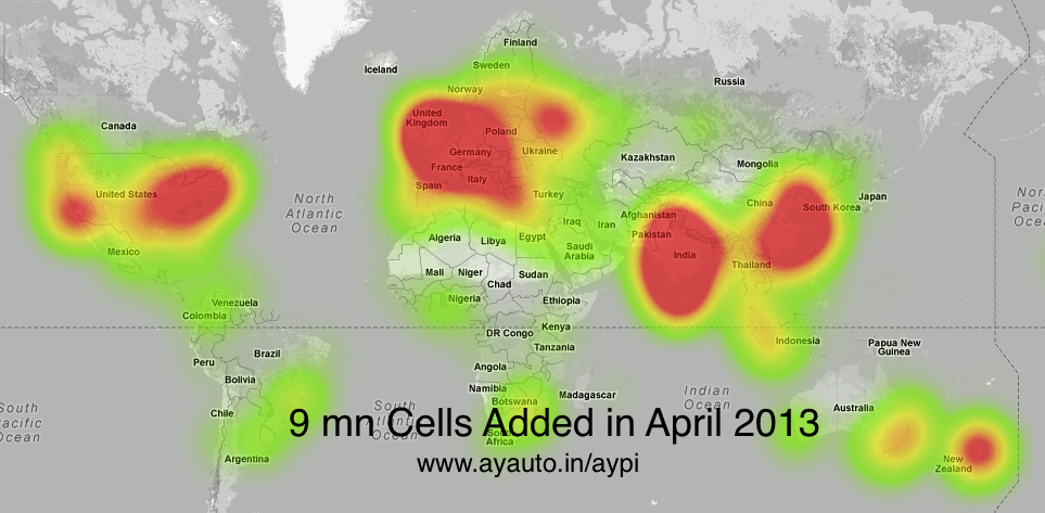 Unwired Labs LocationAPI CELL ID Database Coverage map as on 30 April 2013